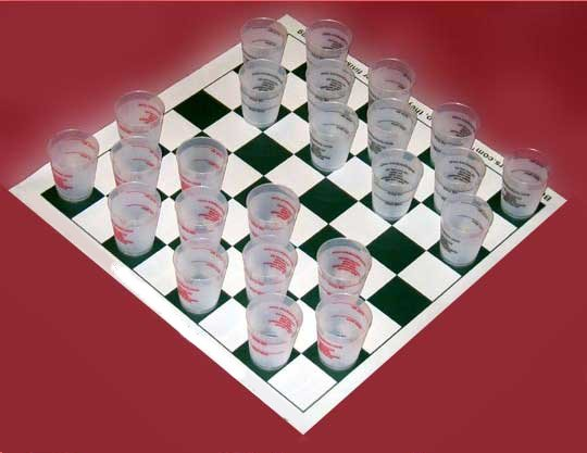 From Image:BeerCheckers.jpg "I, the creator of this work, hereby grant the permission to copy, distribute and/or modify this document under the terms of the GNU Free Documentation License, Version 1.2 or any later version published by the Free Software Foundation; with no Invariant Sections, no Front-Cover Texts, and no Back-Cover Texts. Subject to disclaimers." This is the author's information, and summary "(del) (cur) 17:57, 24 October 2006 . . fpoknikr (Talk